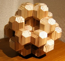 Truncated octahedron by chamfered cubes